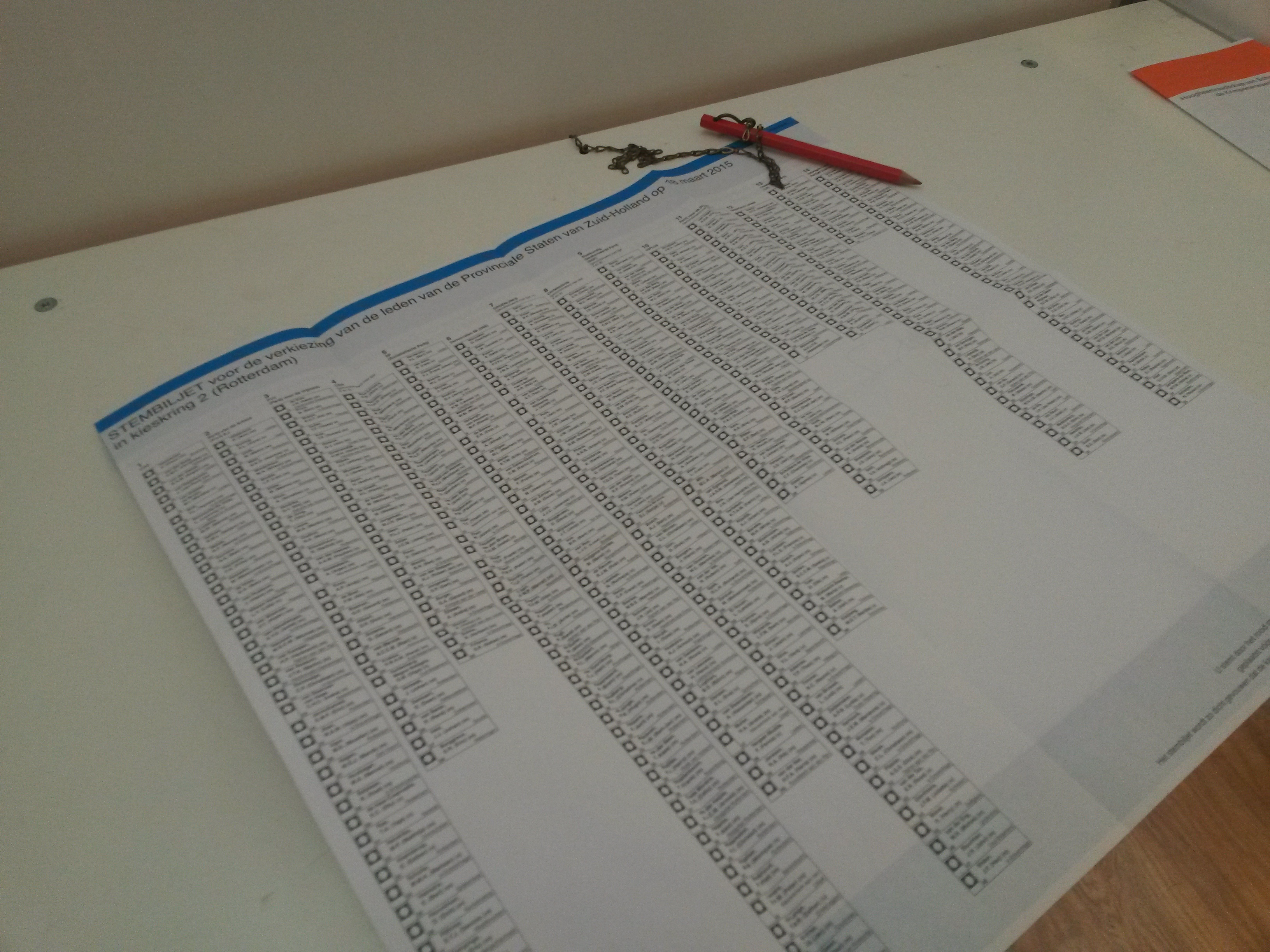 Voting card 2015